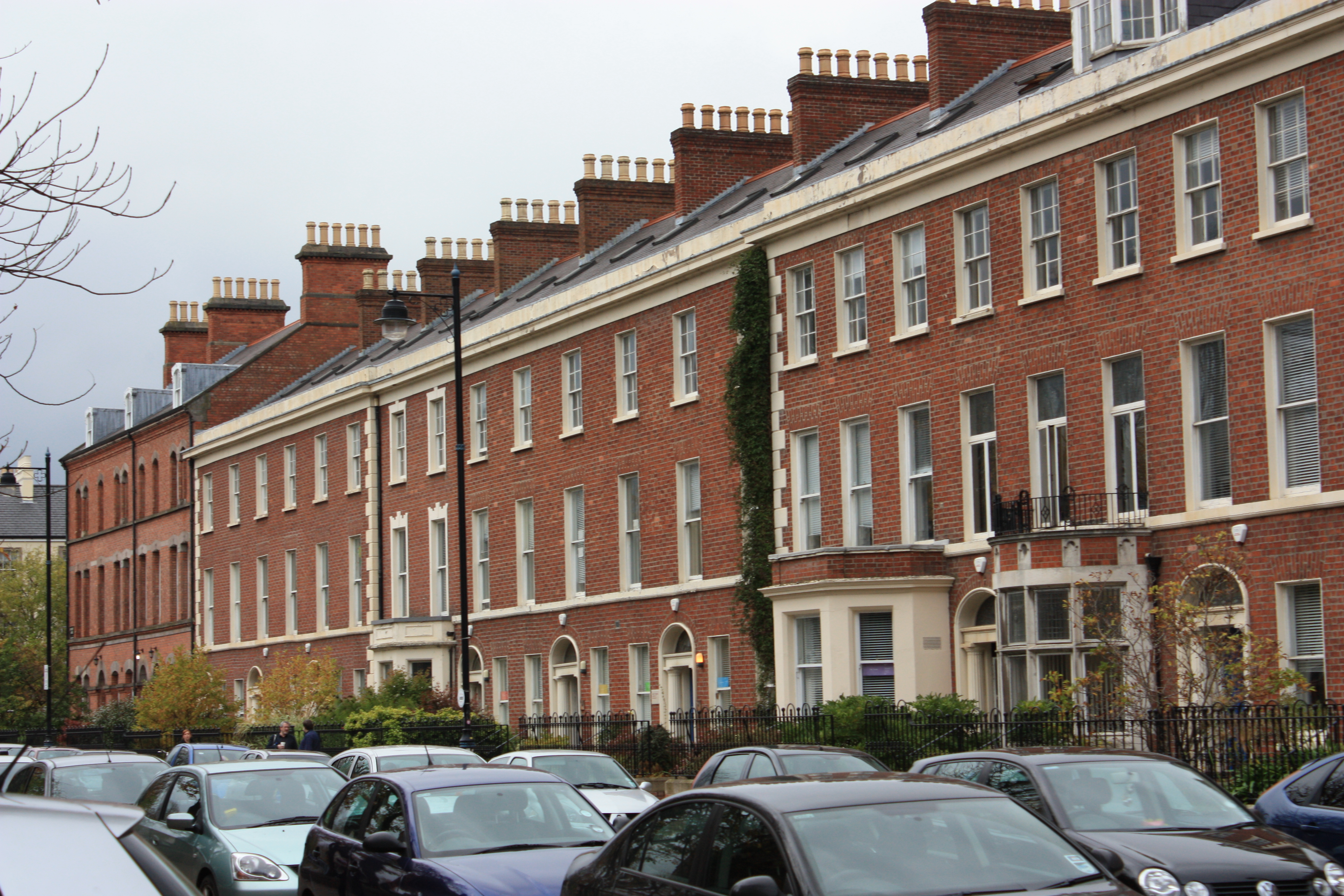 College Square (looking towards University Road), Belfast, Northern Ireland, October 2009